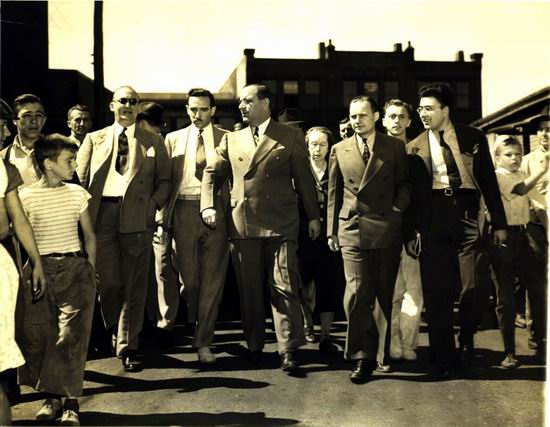 Fritz Kuhn was arrested in Webster on charges of drunkenness and profanity. Kuhn had been visiting Count Anastase Andreivitch Vonsiatskoy-Vonsiatski, the one-time head of the White Russians in the U.S. who lived in Thompson. He was arrested on the evening of July 16, 1939. This photo shows the Kuhn group after they left the courthouse. A crowd gathered around the court greeting Kuhn with loud boos. Kuhn appears in the center of the photo.